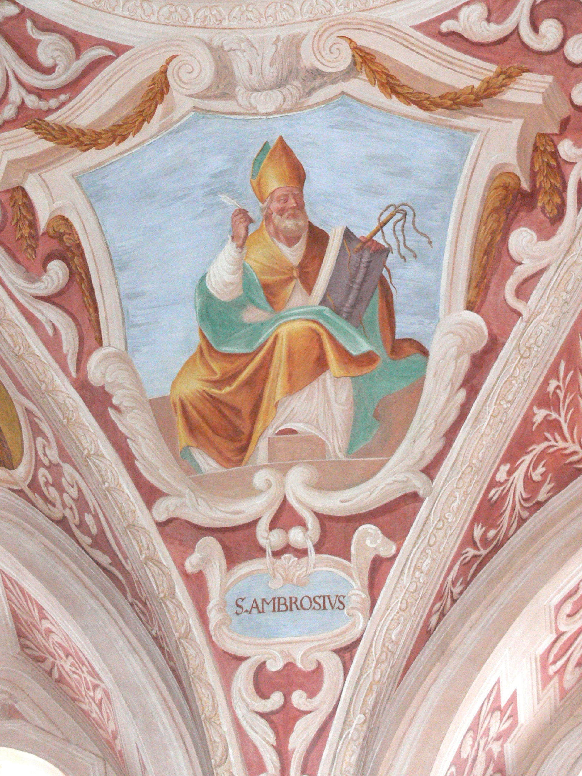 Pfarrkirchen i.M. Parish church: Fresco - Saint Ambrosius.